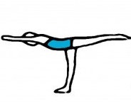 pose